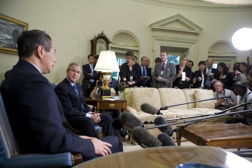 The media gathers in the Oval Office Tuesday, July 12, 2005, as President George W. Bush visits with Singapore Prime Minister Lee Hsien Loong.